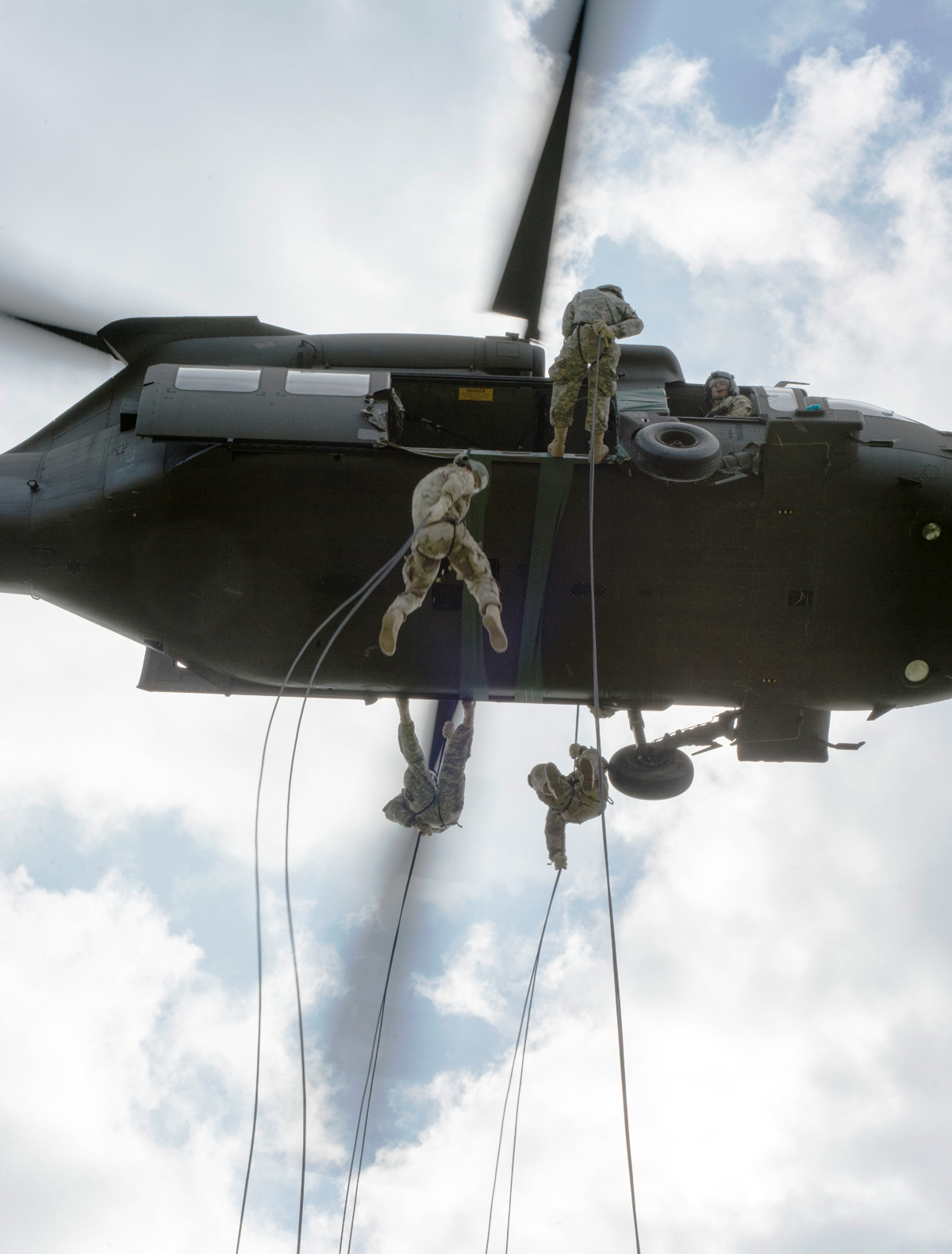 U.S. Army Air Assault School students practice reppelling from a UH-60 Black Hawk at Camp Gruber near Braggs, Oklahoma